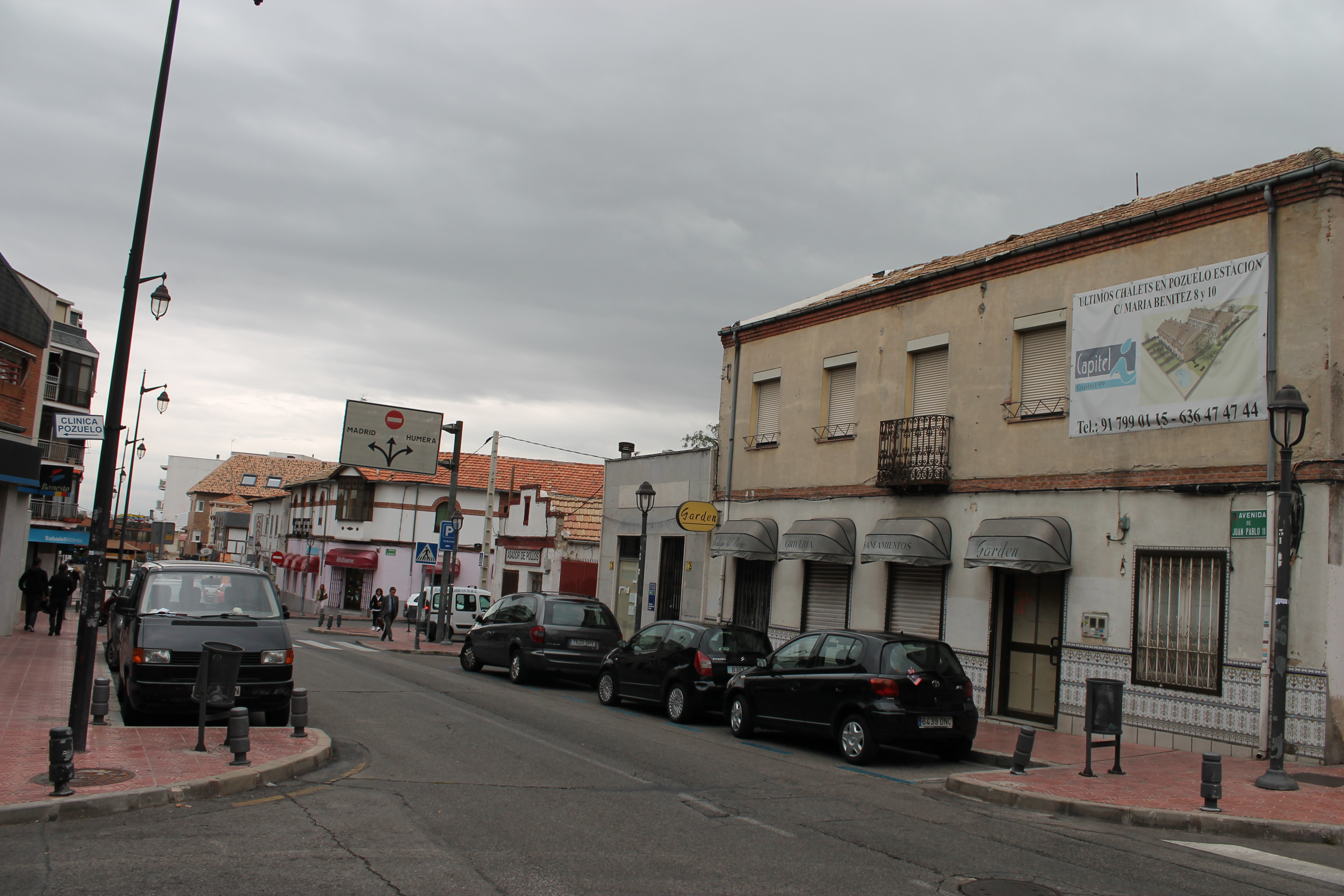 The old part of Pozuelo de Alarcón, Comunidad de Madrid, Spain